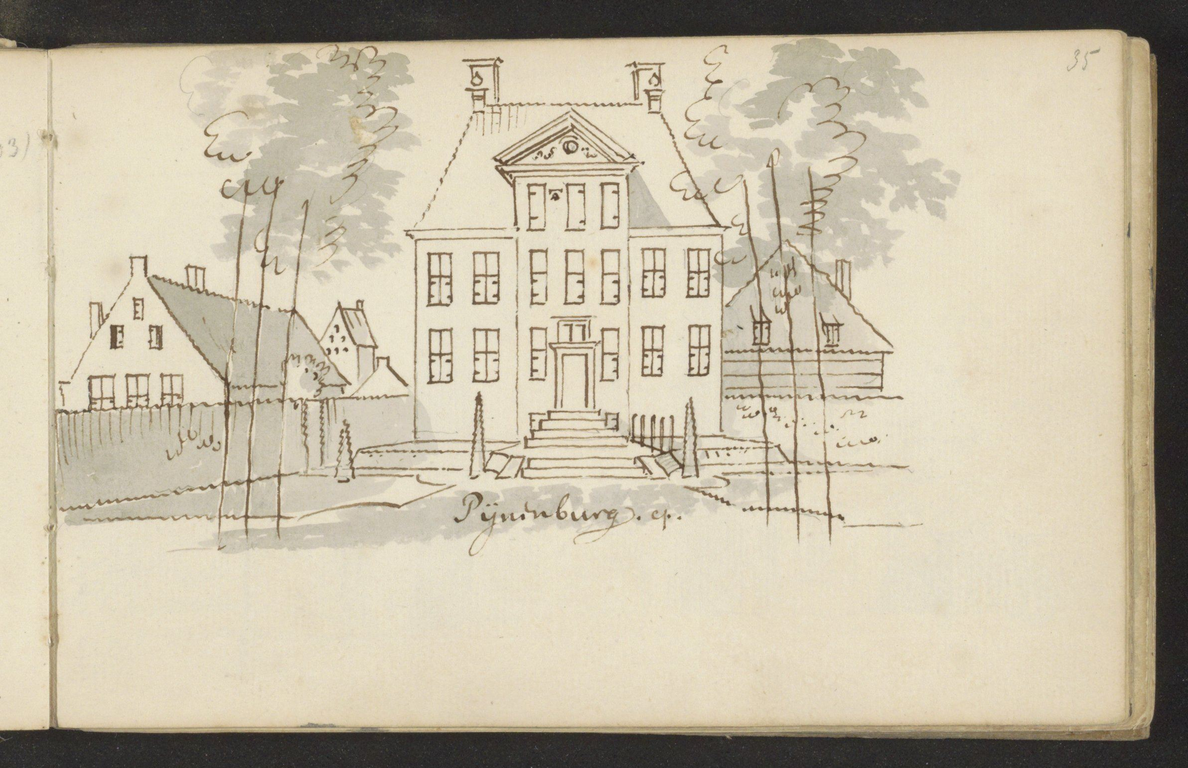 1731 Sketchbook drawing by Abraham de Haen after Cornelis Pronk. Inv. NrBI-1897-387-C-35(R), coll. Rijksmuseum, Amsterdam